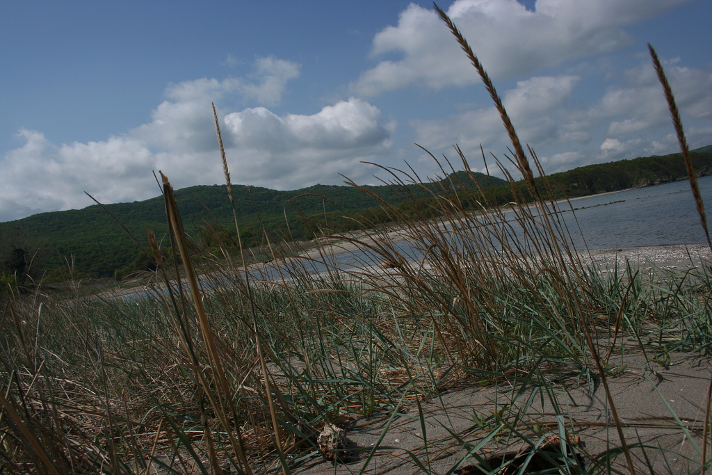 rezerve Ropotamo